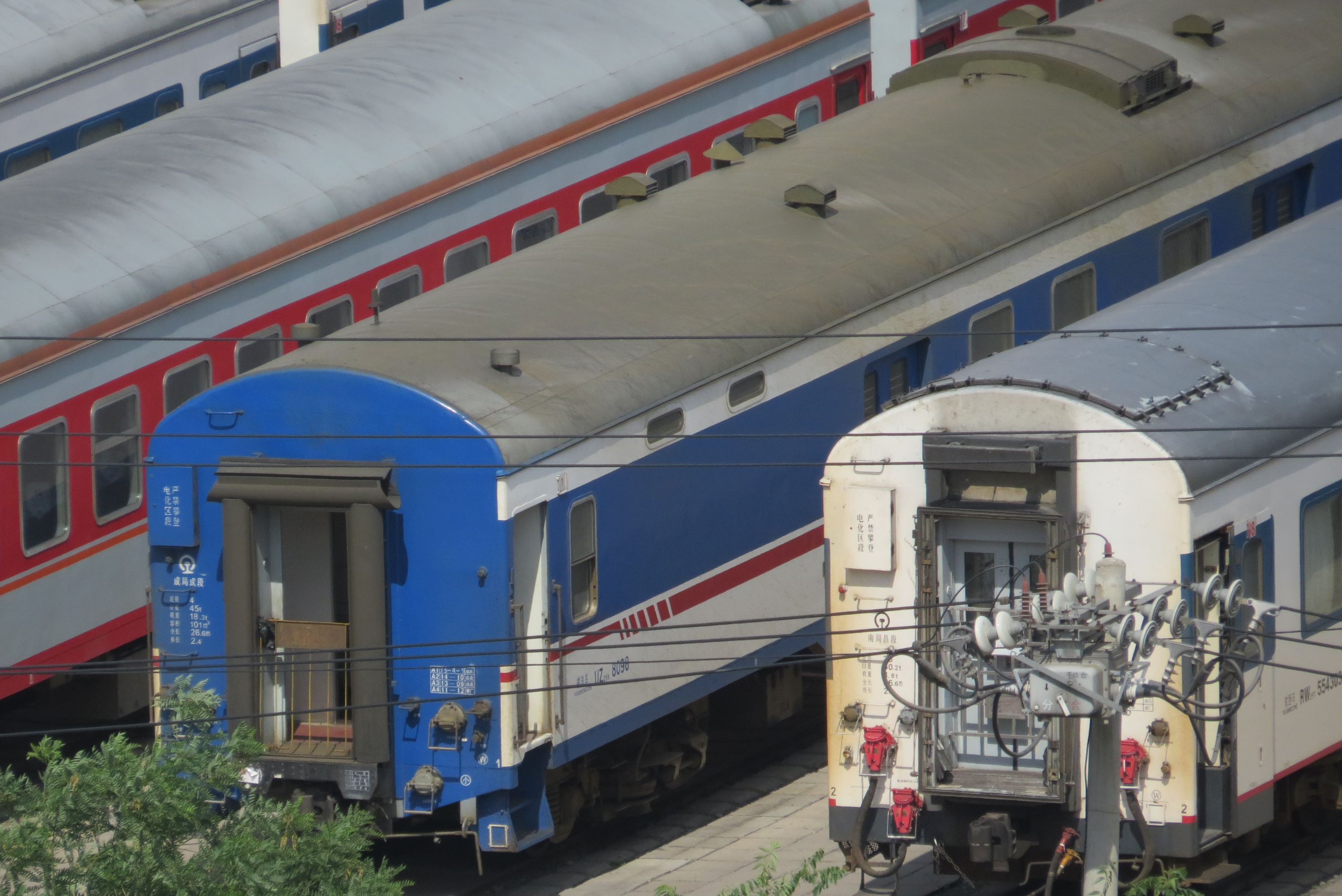 It had been maintenanced in Liuzhou Locomotive and Rolling Stock Works.